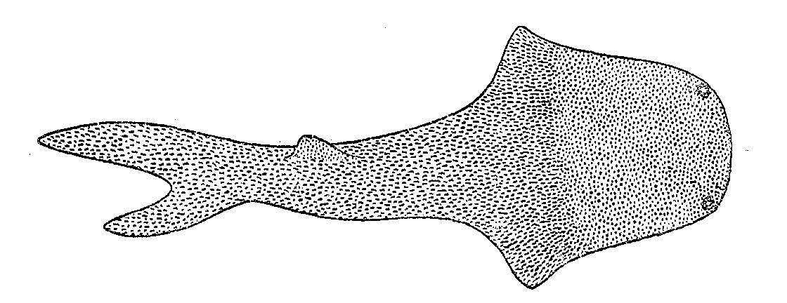 Restoration of the agnathan theldontThelodus scoticus Traquair 1898 (=Loganellia scotica). The body is twisted in the middle portion in order to show the head from above and the tail by side. Early Silurian of Lanarkshire, Scotland. After Traquair.